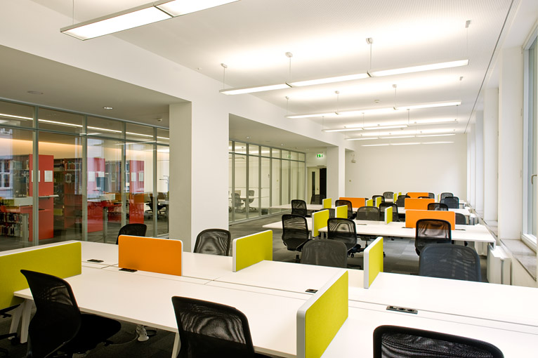 study area and library